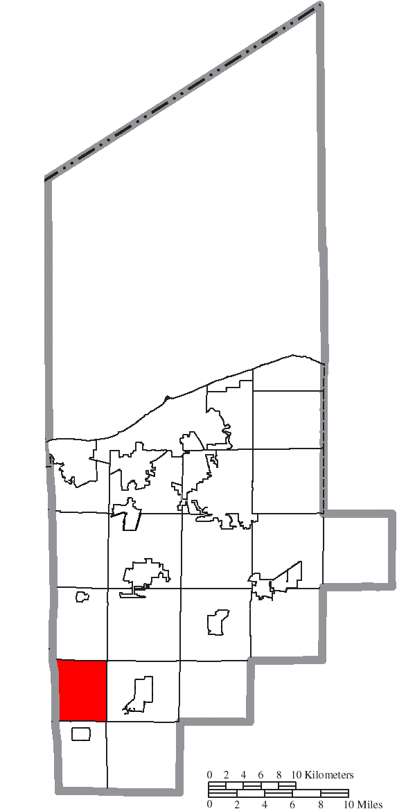 Map of the municipal and township boundaries of Lorain County, Ohio, United States, as of the 2000 census, with the location of Brighton Township highlighted. Township borders are shown only in unincorporated areas in order to differentiate incorporated and unincorporated areas more clearly.